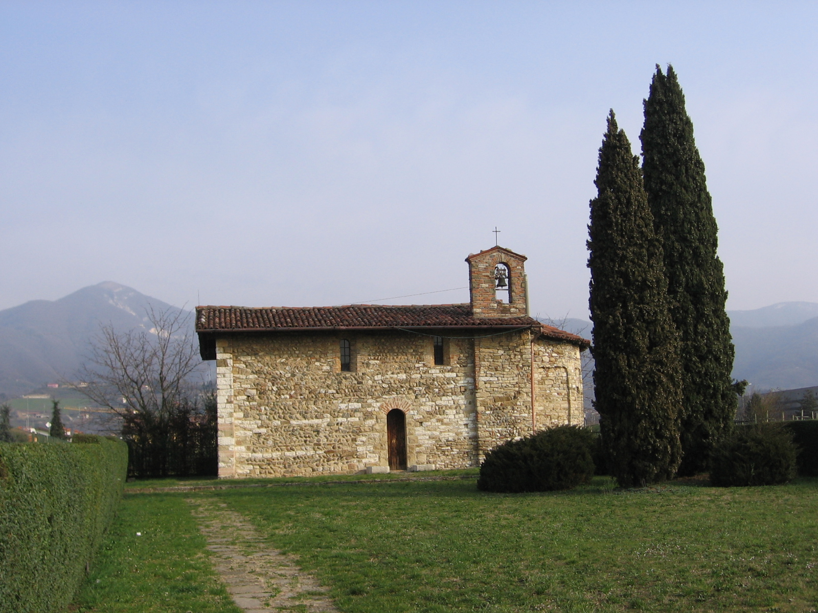 San Paolo d'Argon, Bergamo, Lombardy, Italy - Saint Peter church